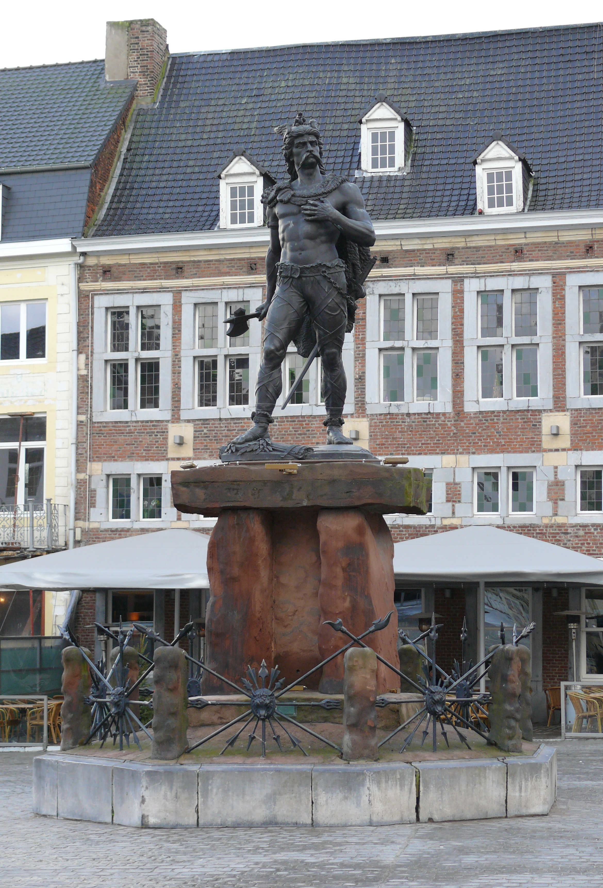 a